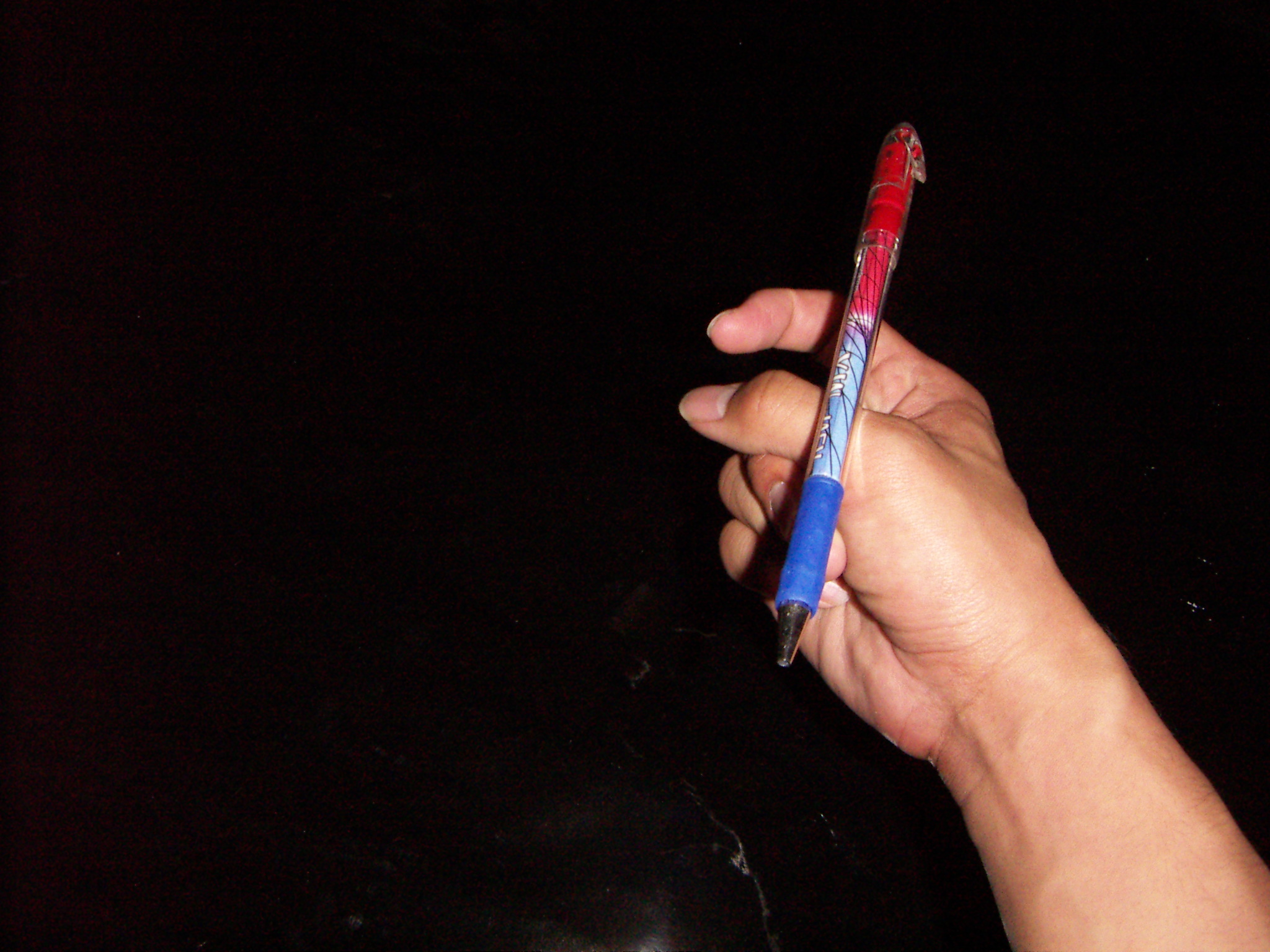 Photograph of ThumbSpin Description: ThumbSpin Source: Photograph taken by tohlz Date: created 24. July. 2005